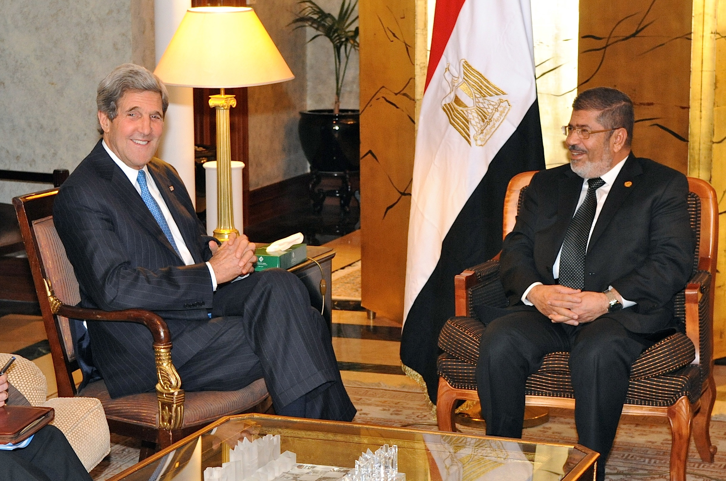 U.S. Secretary of State John Kerry meets with Egyptian President Mohamed Morsi, as the two attend the 50th anniversary African Union Summit in Addis Ababa, Ethiopia, on May 25, 2013. [State Department photo/ Public Domain]